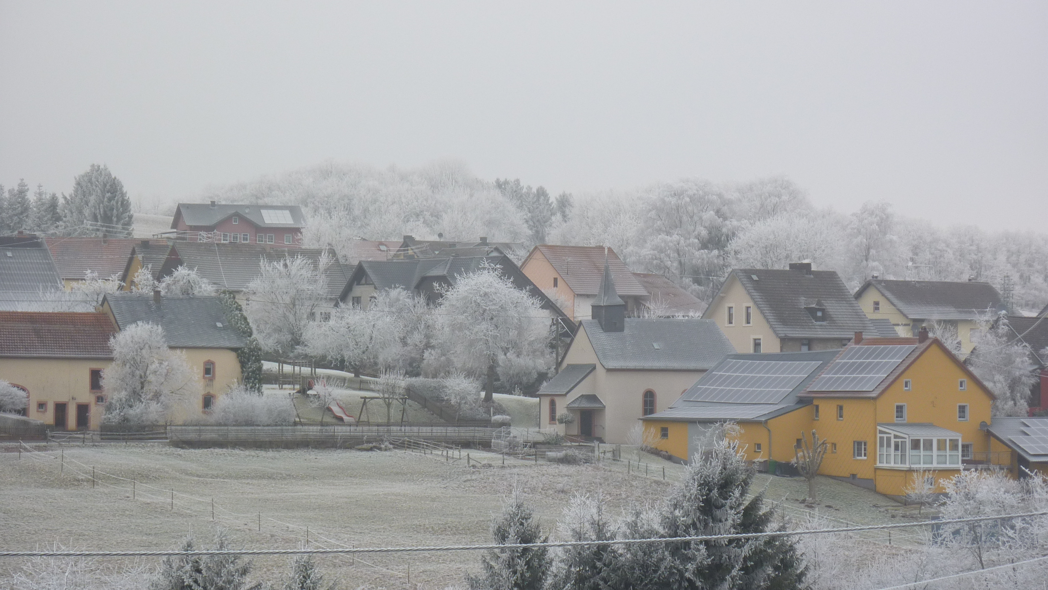 The Eifel village of Nimshuscheid in winter